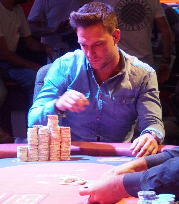 Steve Enriquez